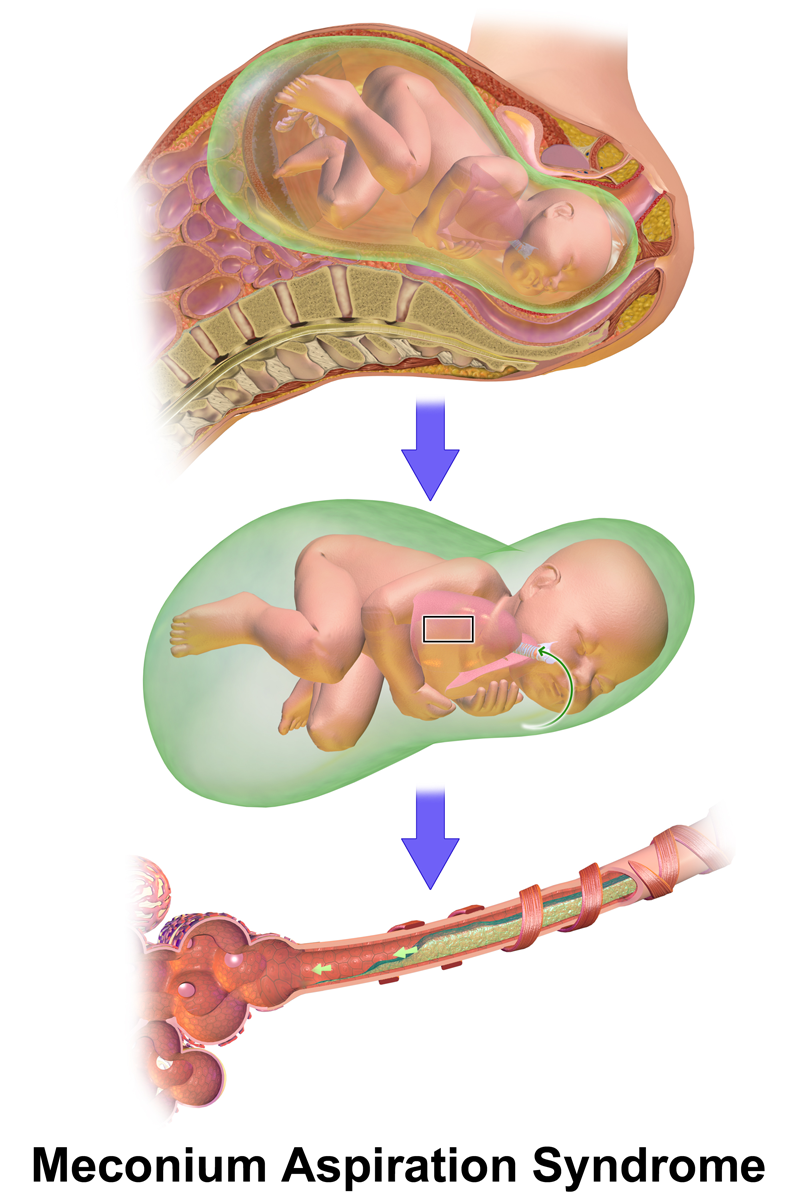 Meconium aspiration syndrome (MAS). See a full animation of this medical topic.